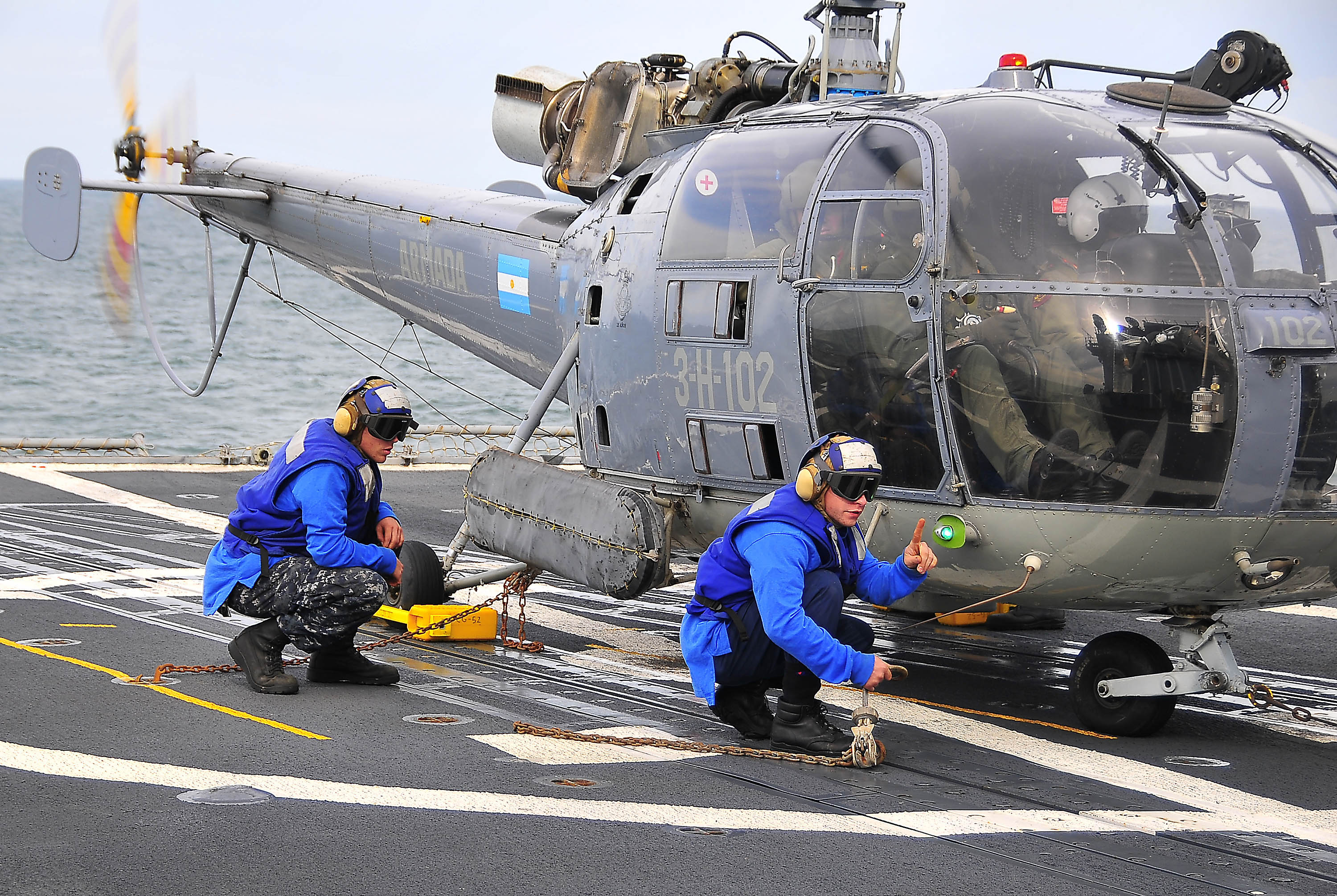 100308-N-4774B-056 ATLANTIC OCEAN (March 8, 2010) Sailors aboard the guided-missile cruiser USS Bunker Hill (CG 52) secure an Argentine navy SA-316B Alouette III helicopter during deck landing qualifications. Bunker Hill is participating in Southern Seas 2010, a U.S. Southern Command-directed operation that provides U.S. and international forces the opportunity to operate in a multi-national environment. (U.S. Navy photo by Mass Communication Specialist 2nd Class Daniel Barker/Released)